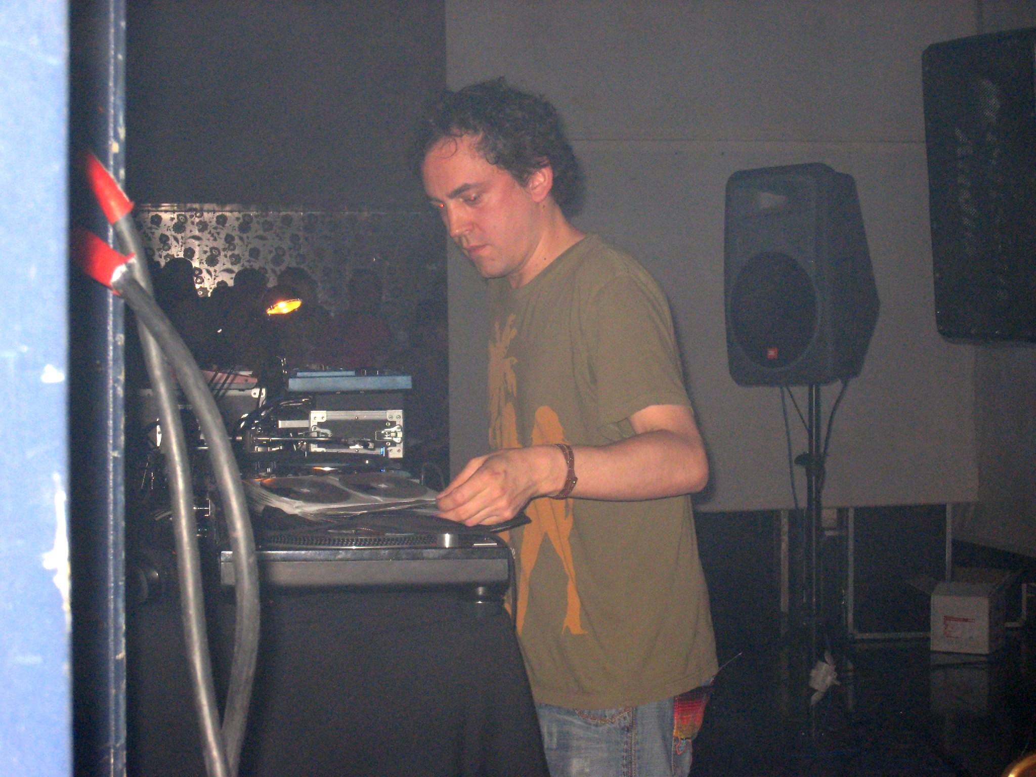 Simon Posford from Shpongle